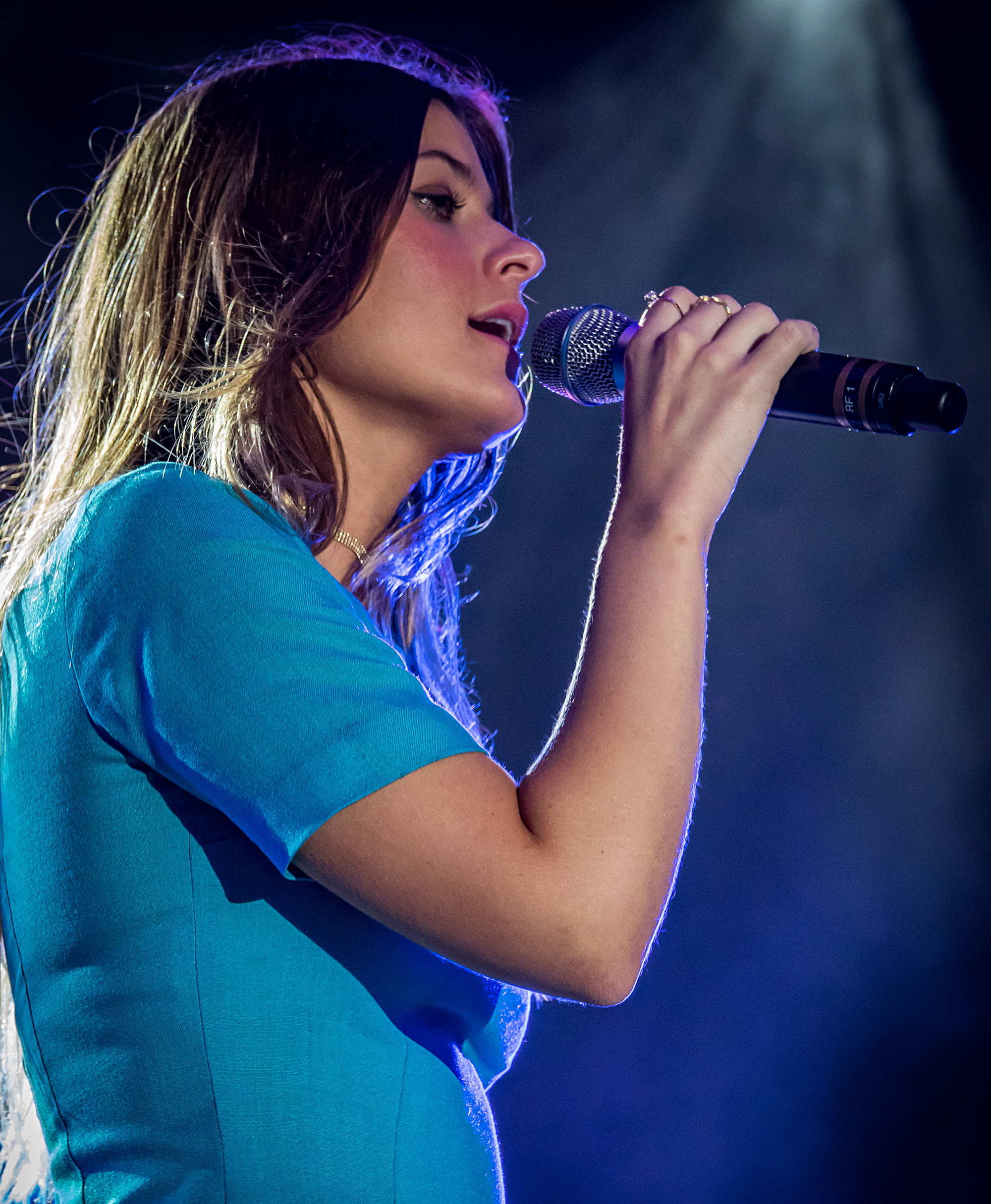 Leon at Airbnb Open Spotlight